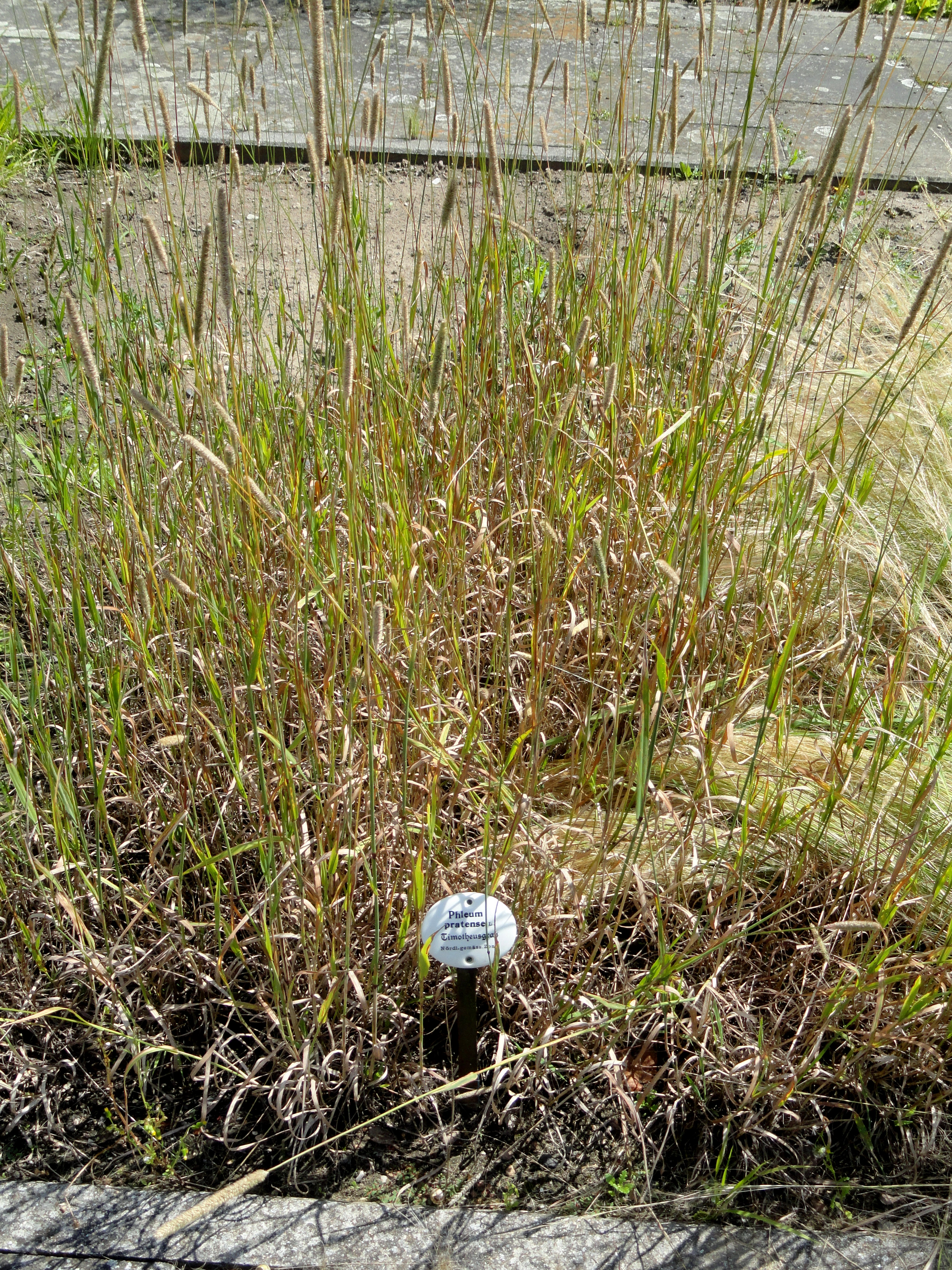 Botanical specimen in the Botanischer Garten, Frankfurt am Main, located at Siesmayerstraße 72, Frankfurt am Main, Germany.